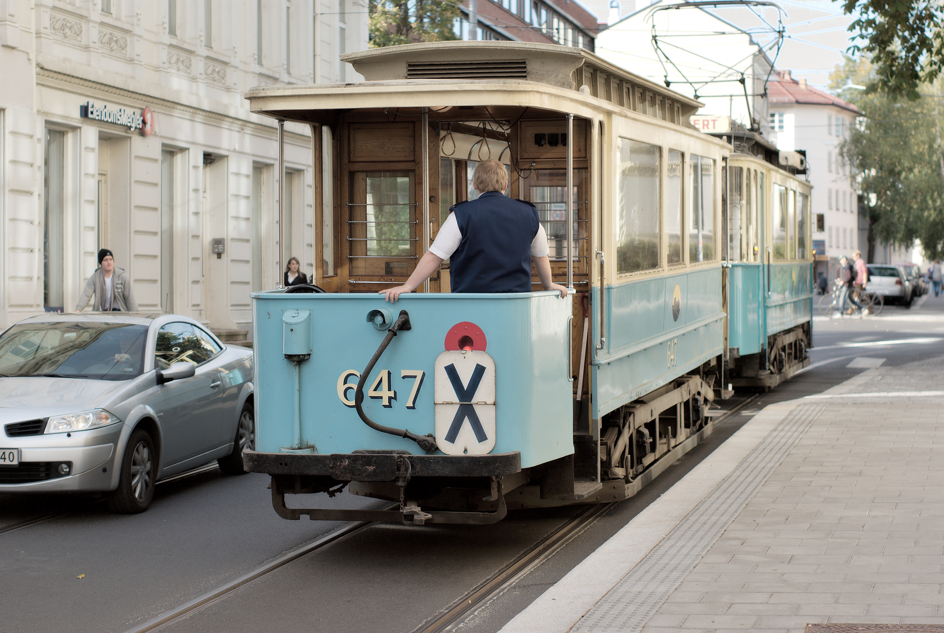 Norwegian tram 70 built 1913.